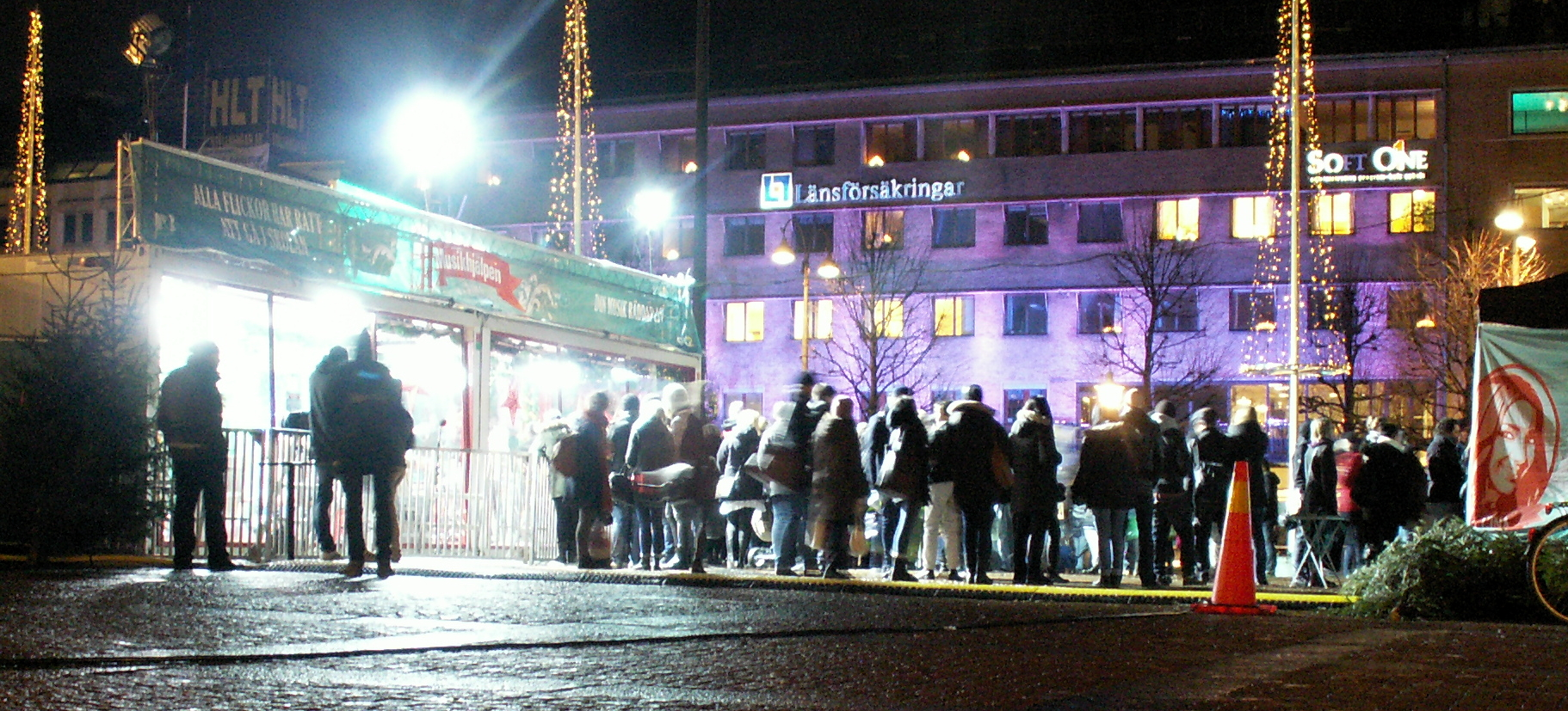 Musikhjälpen 2011 at Gustaf Adolfs Torg in Göteborg, with the glass cage and a watching crowd.